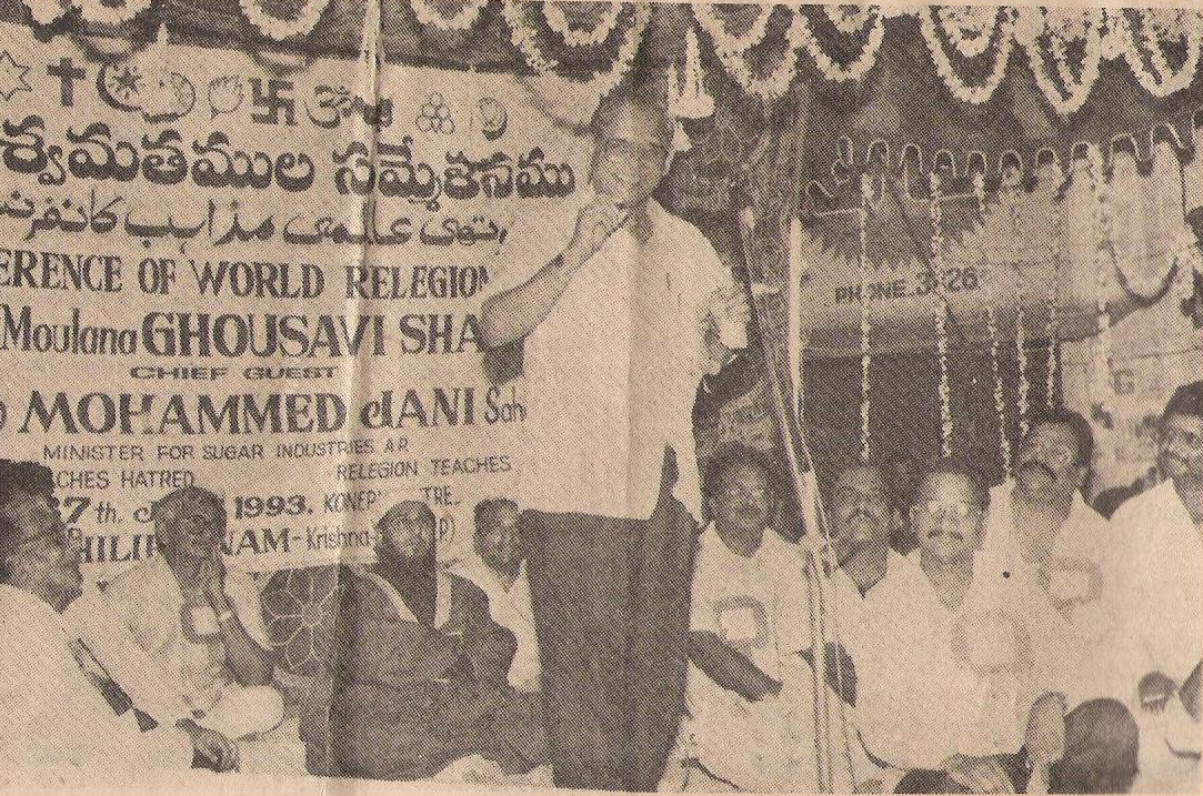 Third Conference of World Religions organized by Moulana Ghousavi Shah(Secretary General: The Conference of World Religions)